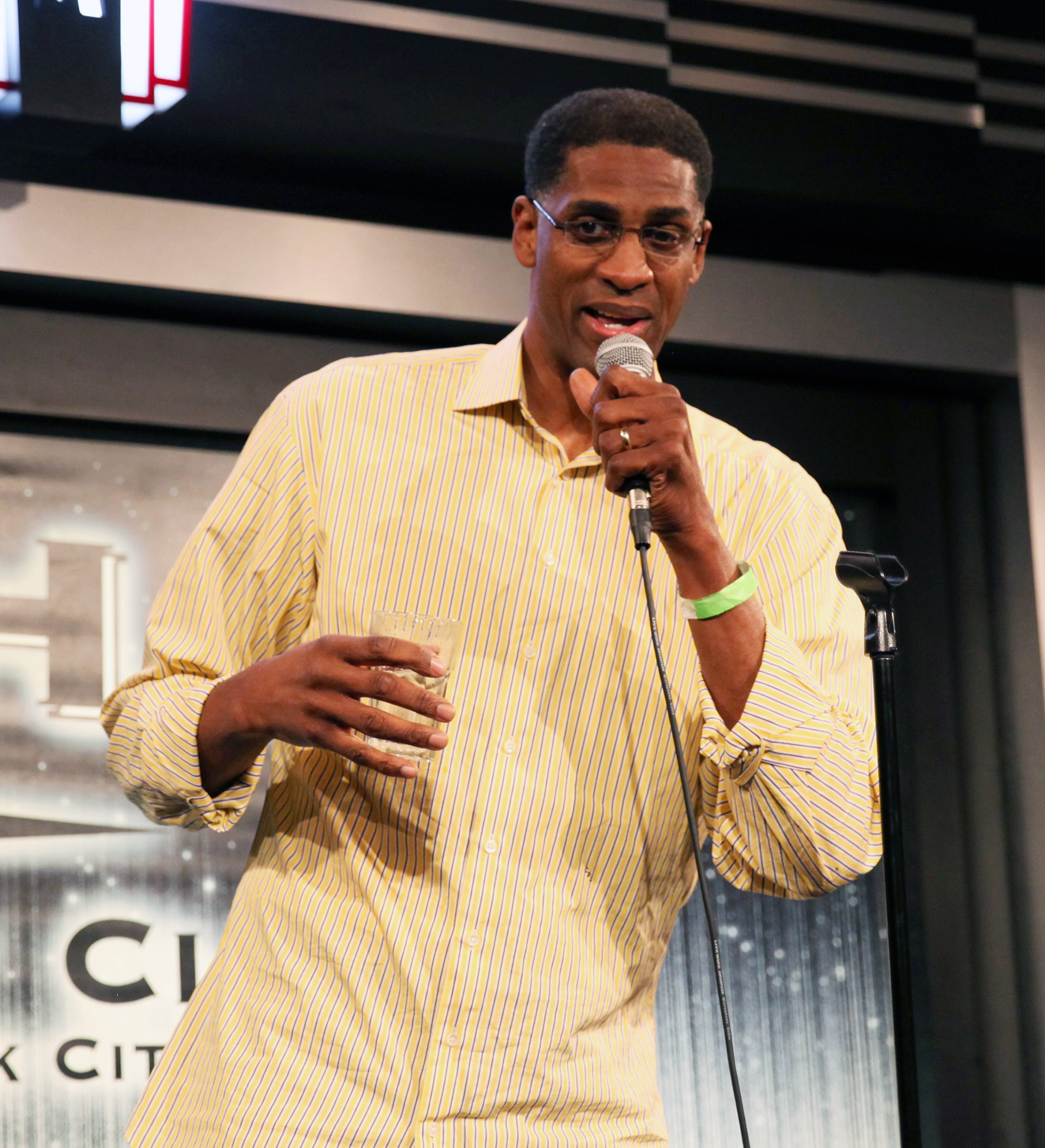 Charles Smith at Gotham Comedy Club in May 2016.